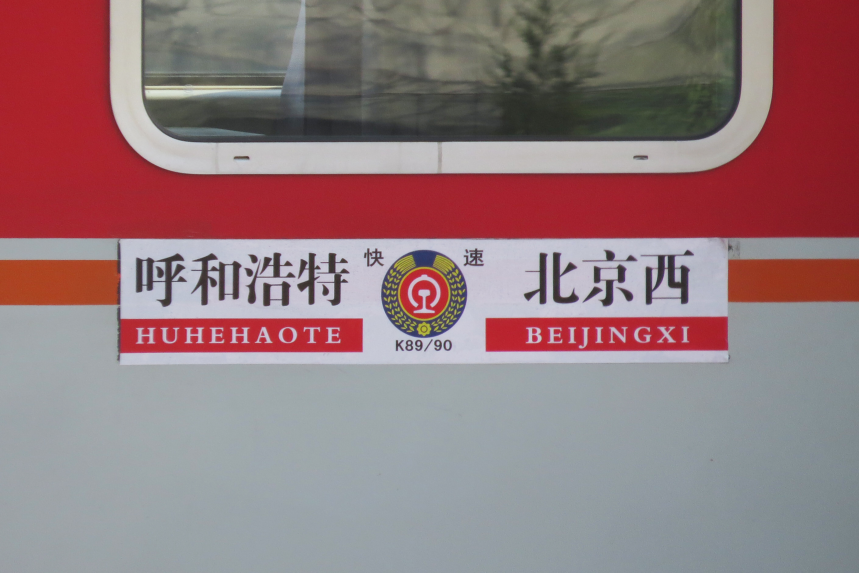 Overnight from Hohhot to Beijing.